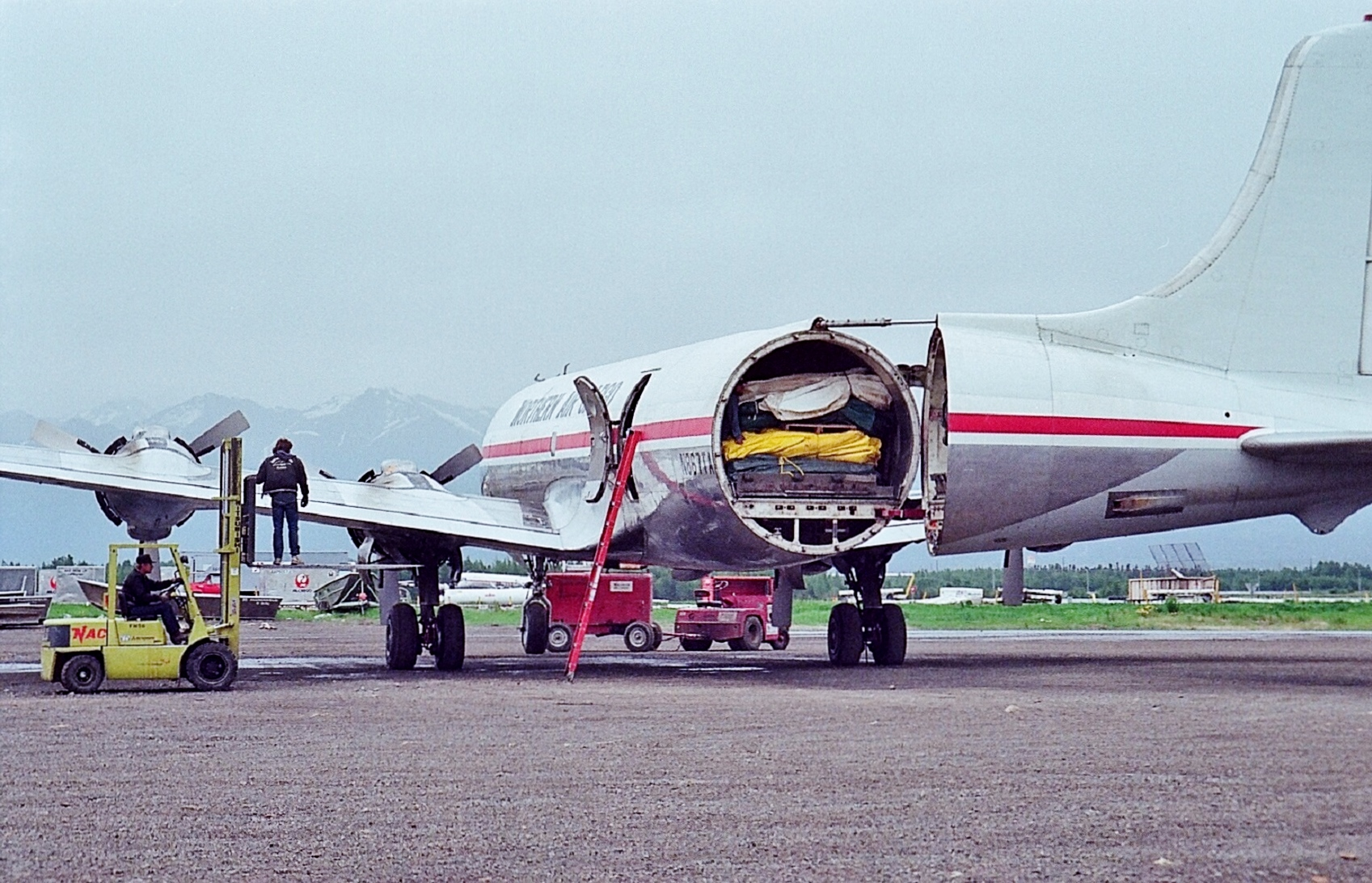 DC-6 N867TA Northern Air Cargo at ANC 14.6.1989. This aircraft was one of only two DC-6 converted to swing-tail configuration. It was destroyed on 25.9.2001 at Deadhorse-Alpine Airstrip, AK, after one wing broke off on touchdown. All 3 on board survived.